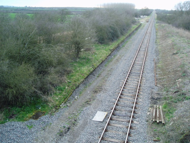 Site of Waddesdon Station, Aylesbury